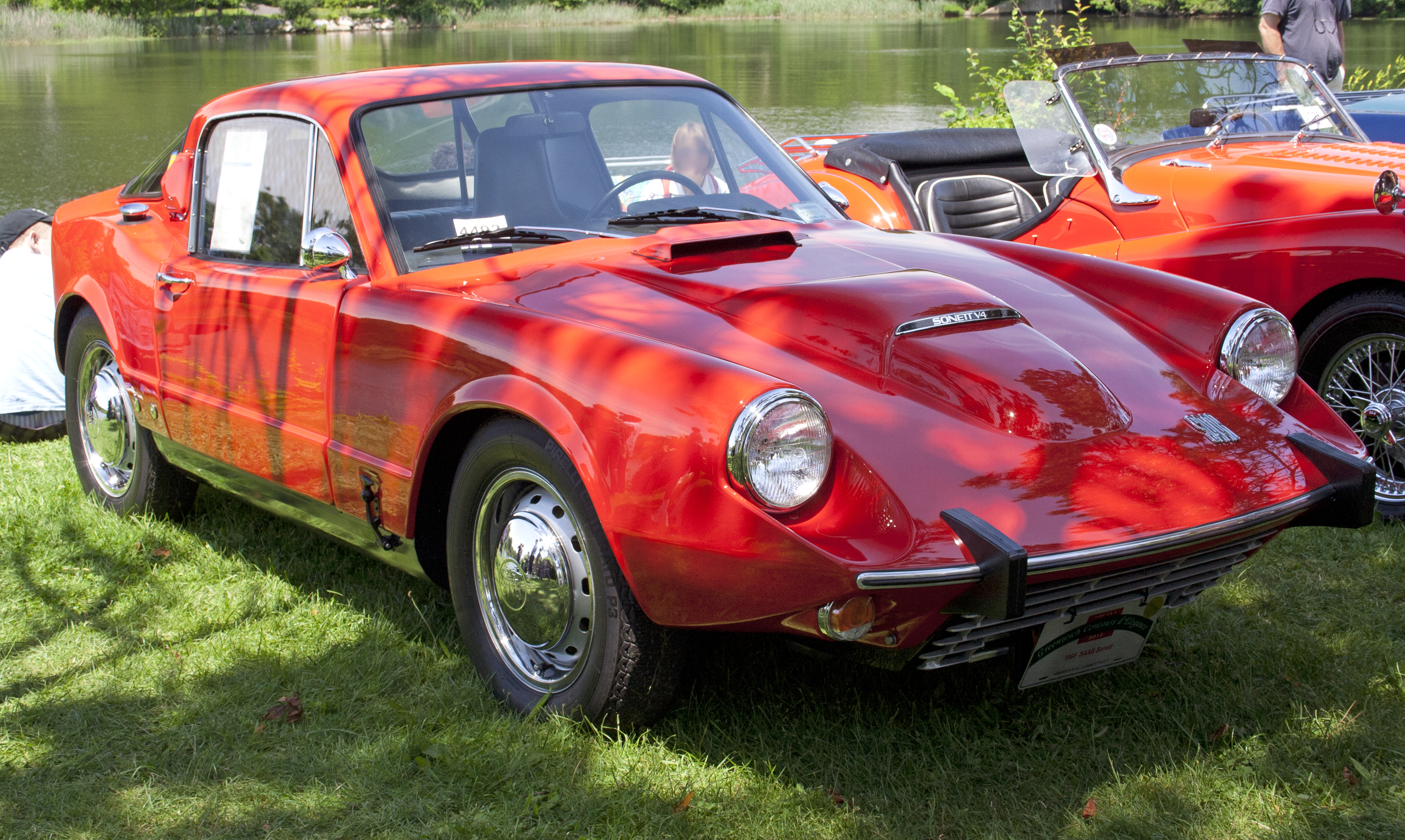 1968 Saab Sonett V4 at the 2012 Greenwich Concours d'Elegance.